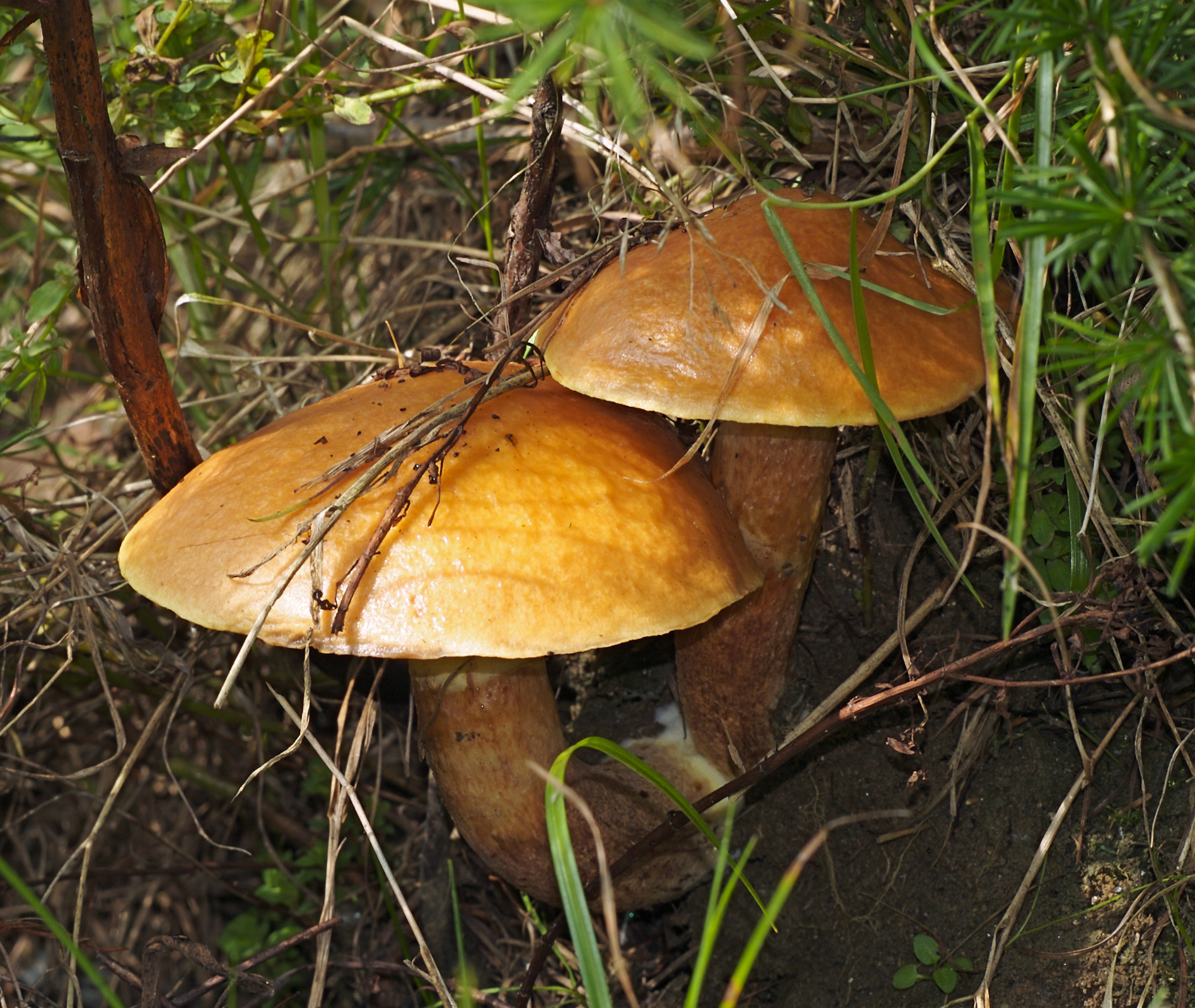 Larch bolete (Suillus grevillei), Chemnitz, Germany